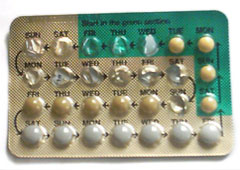 Photograph of a half-used blister pack of Levlen®ED oral contraceptive pill.